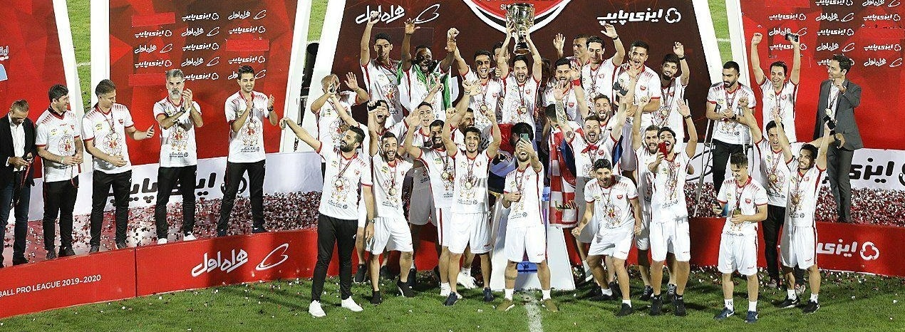 Persepolis F.C. celebrating after 2019–20 Persian Gulf Pro League trophy.